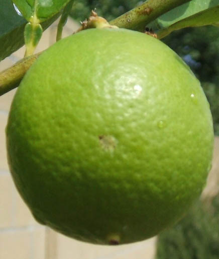 If the file is to be kept, it should be renamed and redescribed. It does not look like Key lime, nor any lime, but a lemon. Furthermore, teh category is misspelt; the correct name is Citrus aurantiifolia according to